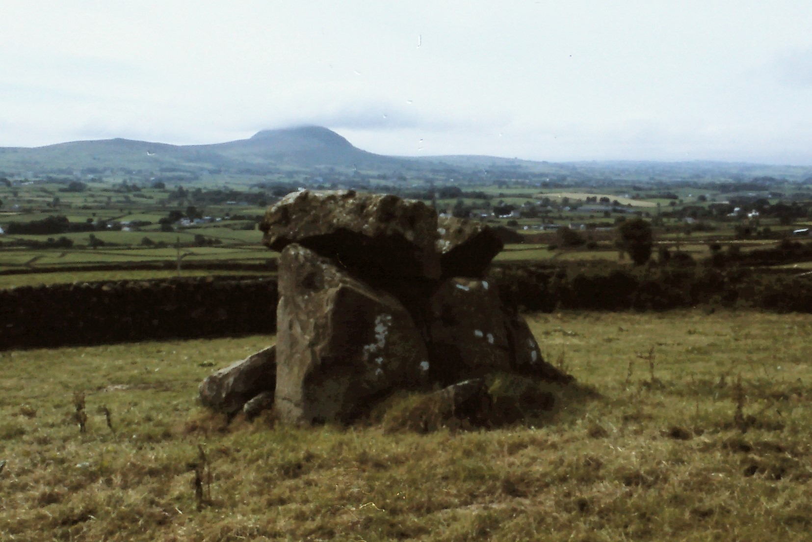 Ticloy Tomb and Slemish Mountain